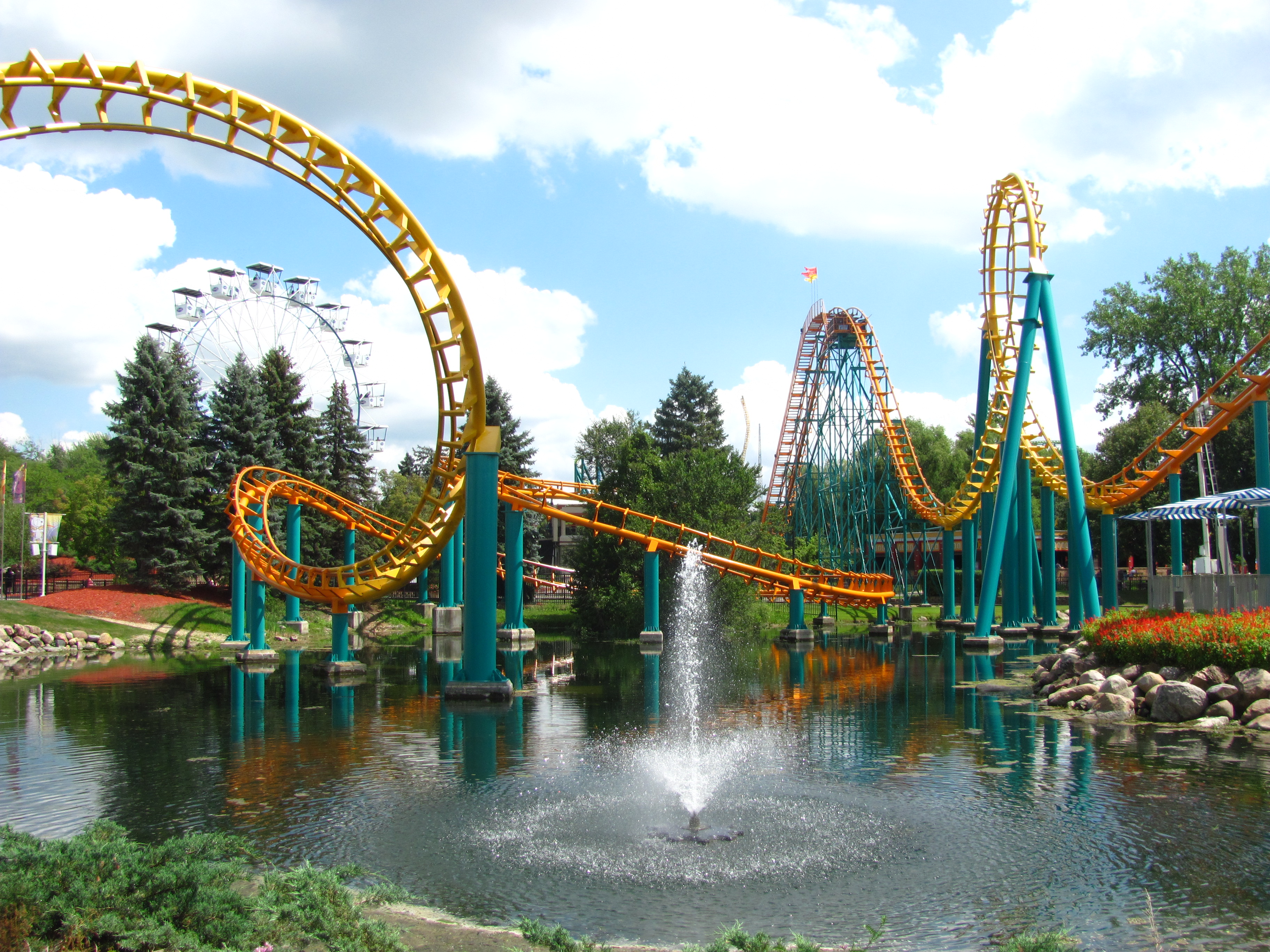 Corkscrew's current color scheme.